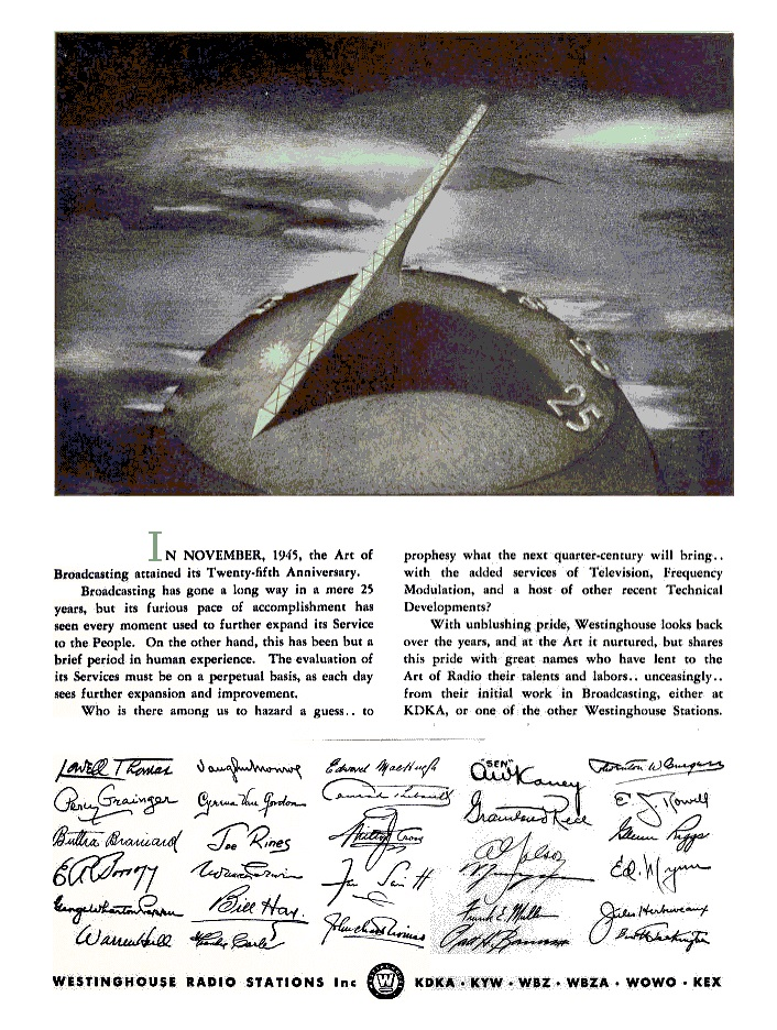 Advertisement for Westinghouse radio stations the marking the 25th anniversary of the start of broadcasting by Westinghouse.